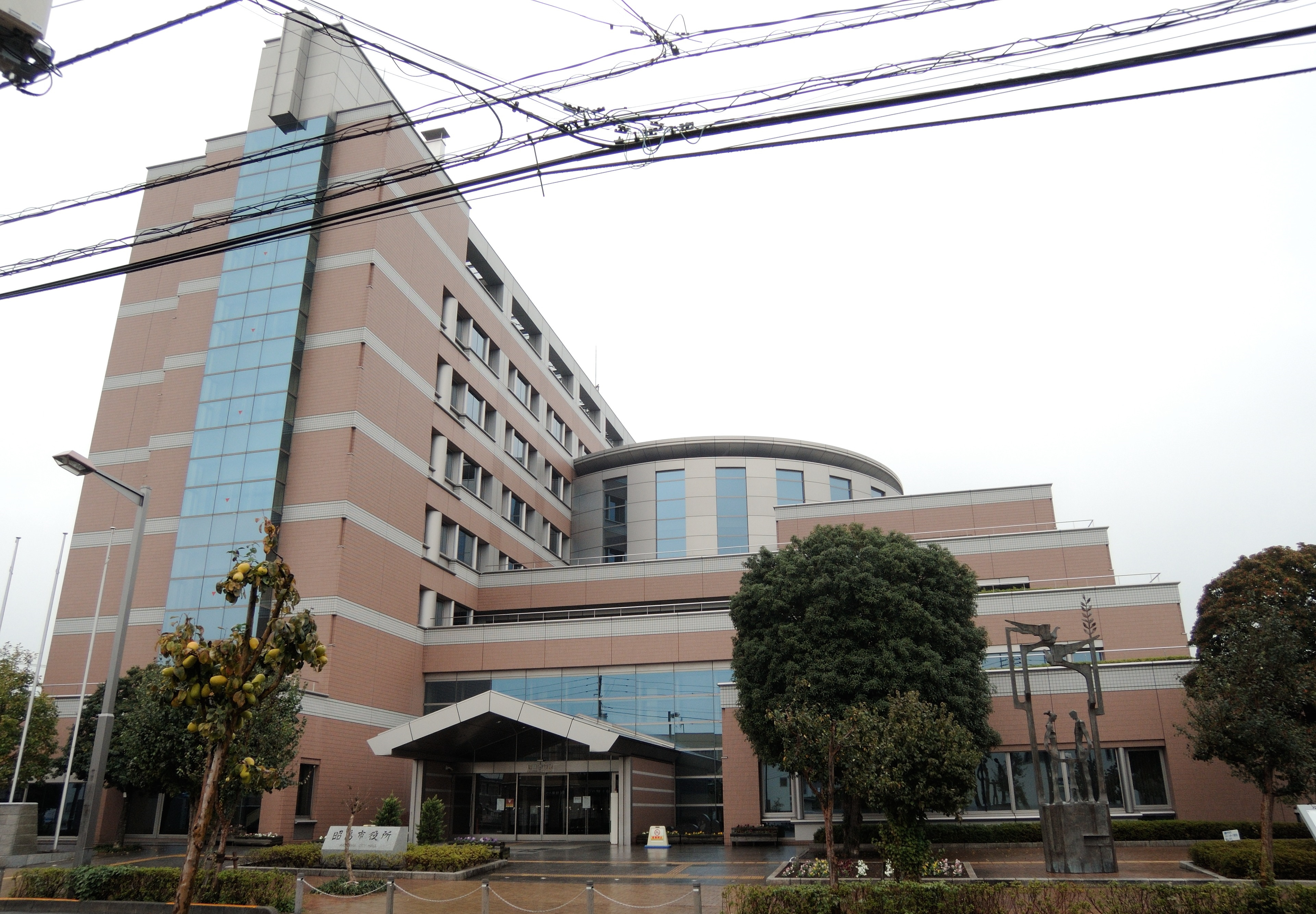 Akishima city hall,Tokyo Metoropolis,Japan